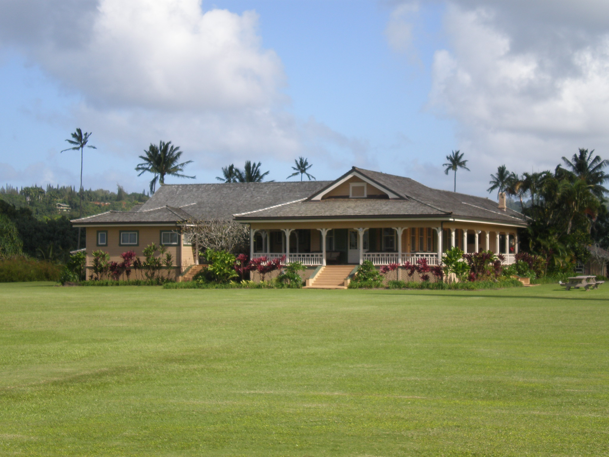 Albert Spencer Wilcox beach house, 4943 Weke Rd., Hanalei, Kauai, on National Register of Historic Places